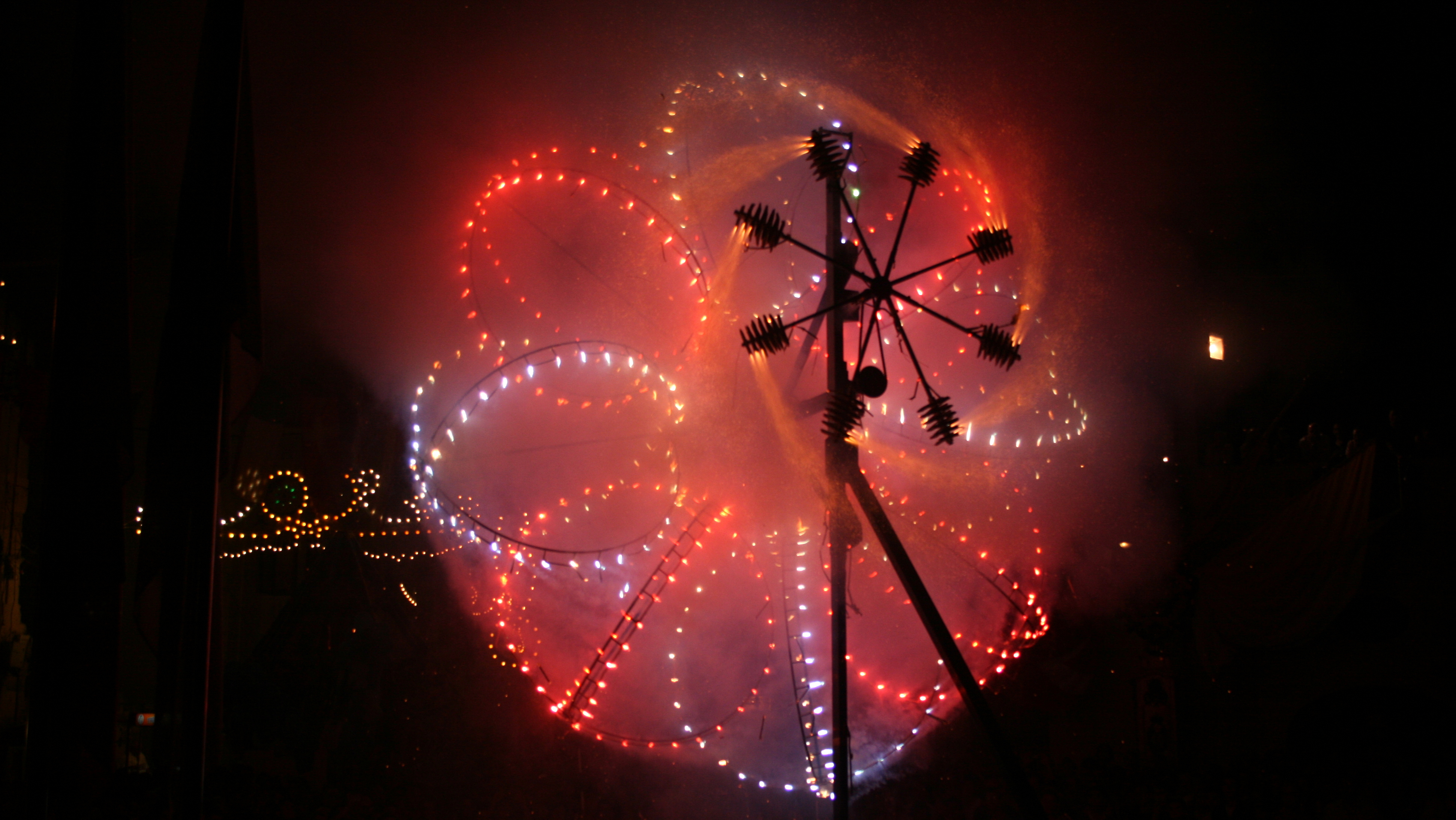 Fireworks display, Qala, Gozo, Malta.